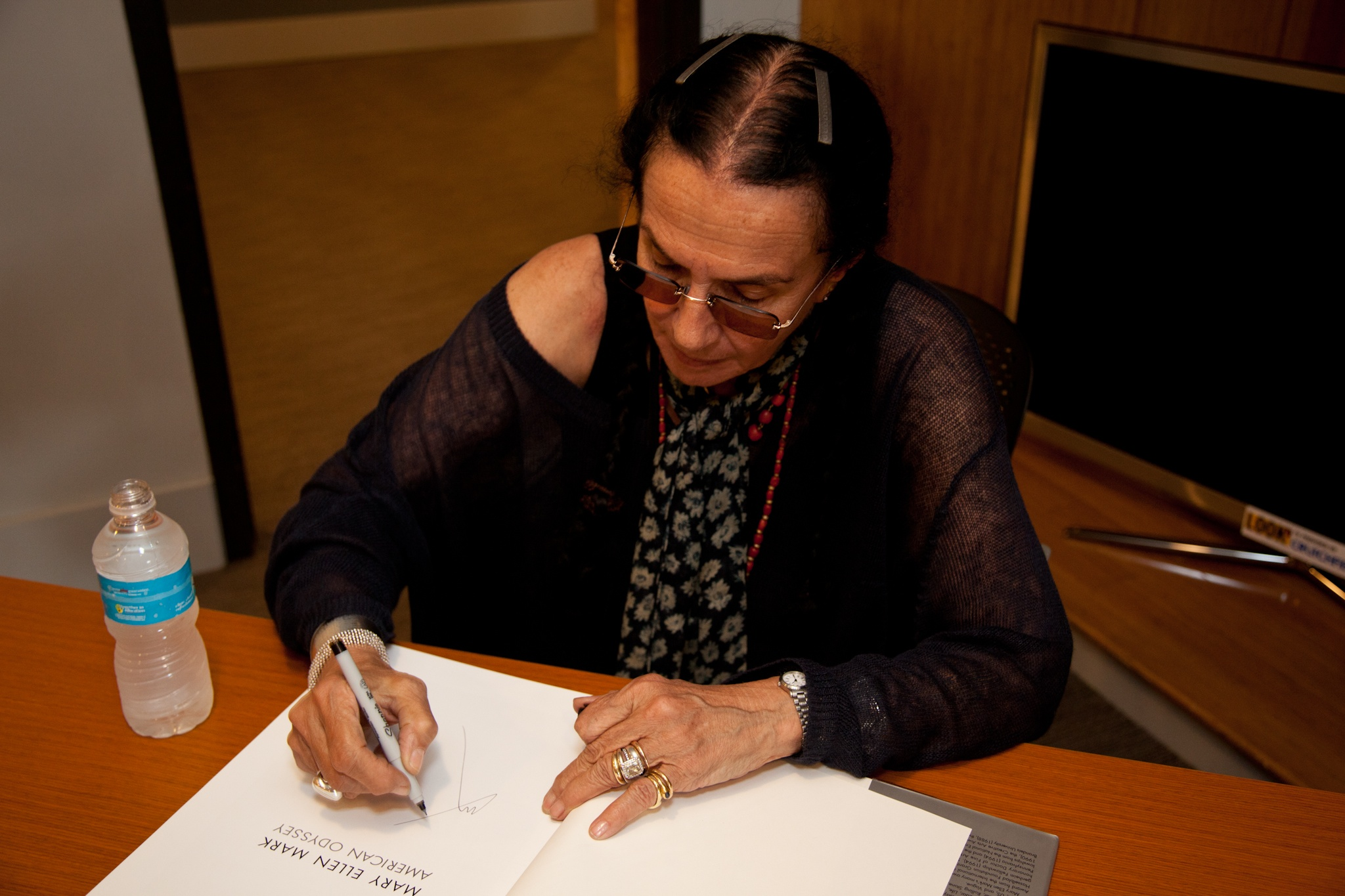 Mary Ellen Mark signs my Aperture monograph.